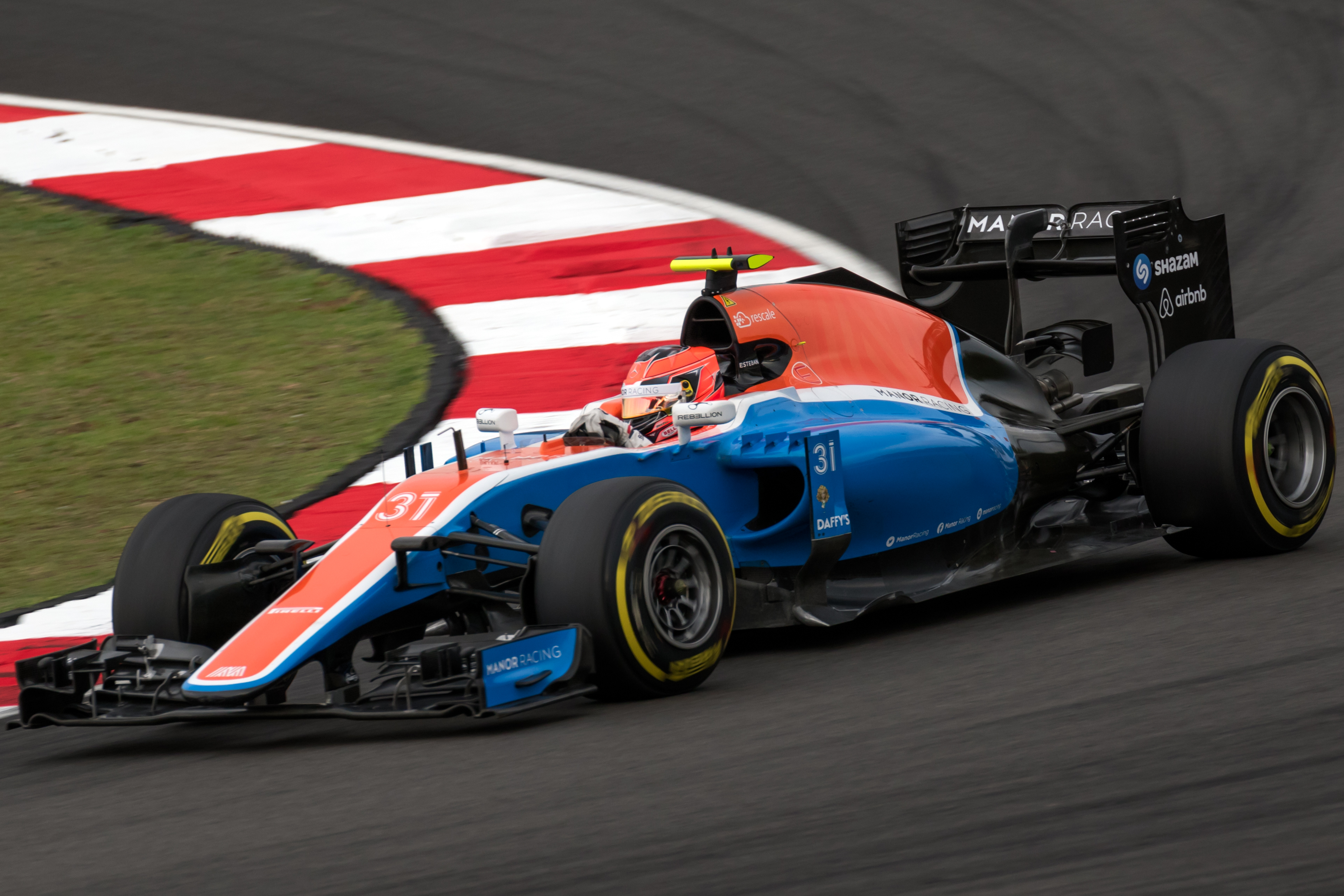 Formula One 2016 Rd.16 Malaysian GP: Esteban Ocon (MRT)